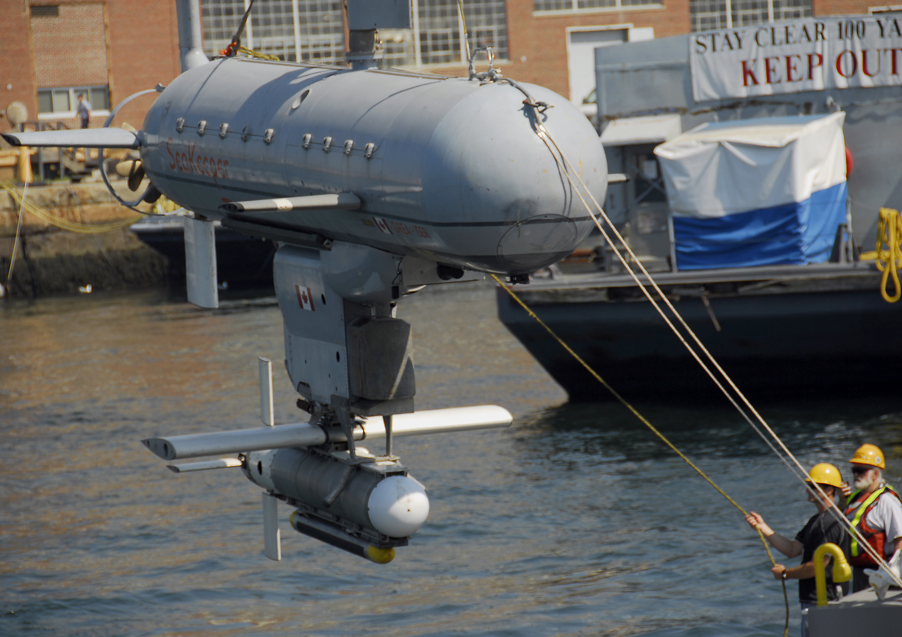 PORSTMOUTH, N.H. (June 10, 2008) Members of Canadian Maritime Operations Group 4, Maritime Forces Pacific, based in Esquimalt, British Columbia, lower the Dorado, a 30-ft, 7-ton Interim Remote Mine Hunting and Detection System (IRMDS) into Portsmouth Naval Shipyard. Dorado is used for detecting man-made objects up to 700-feet below the surface of the water. The Canadian Navy and the U.S. Navy and Coast Guard, as well as numerous other federal, state and local agencies are participating in Frontier Sentinel, a homeland security maritime training exercise. U.S. Coast Guard photo by Petty Officer Seth Johnson (Released)